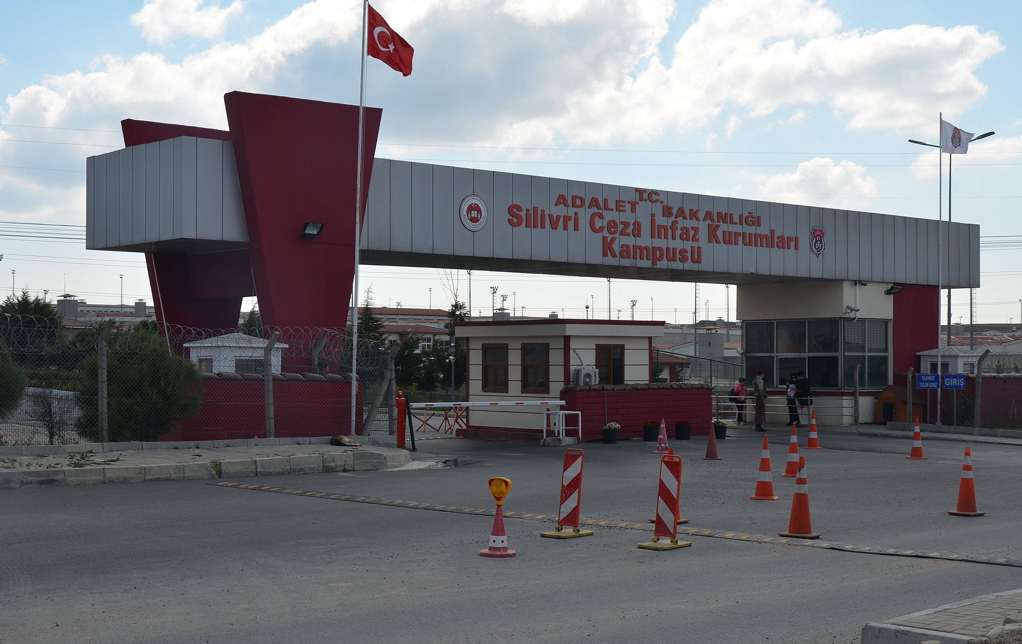 Silivri Prison in Silivri, Istanbul Turkey